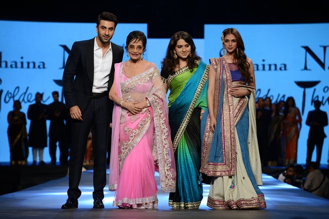 Shaina NC, Ranbir Kapoor, Sadhana, Aditi Rao Hydari at the Cancer Patients Aid Association's fashion show by Shaina NC